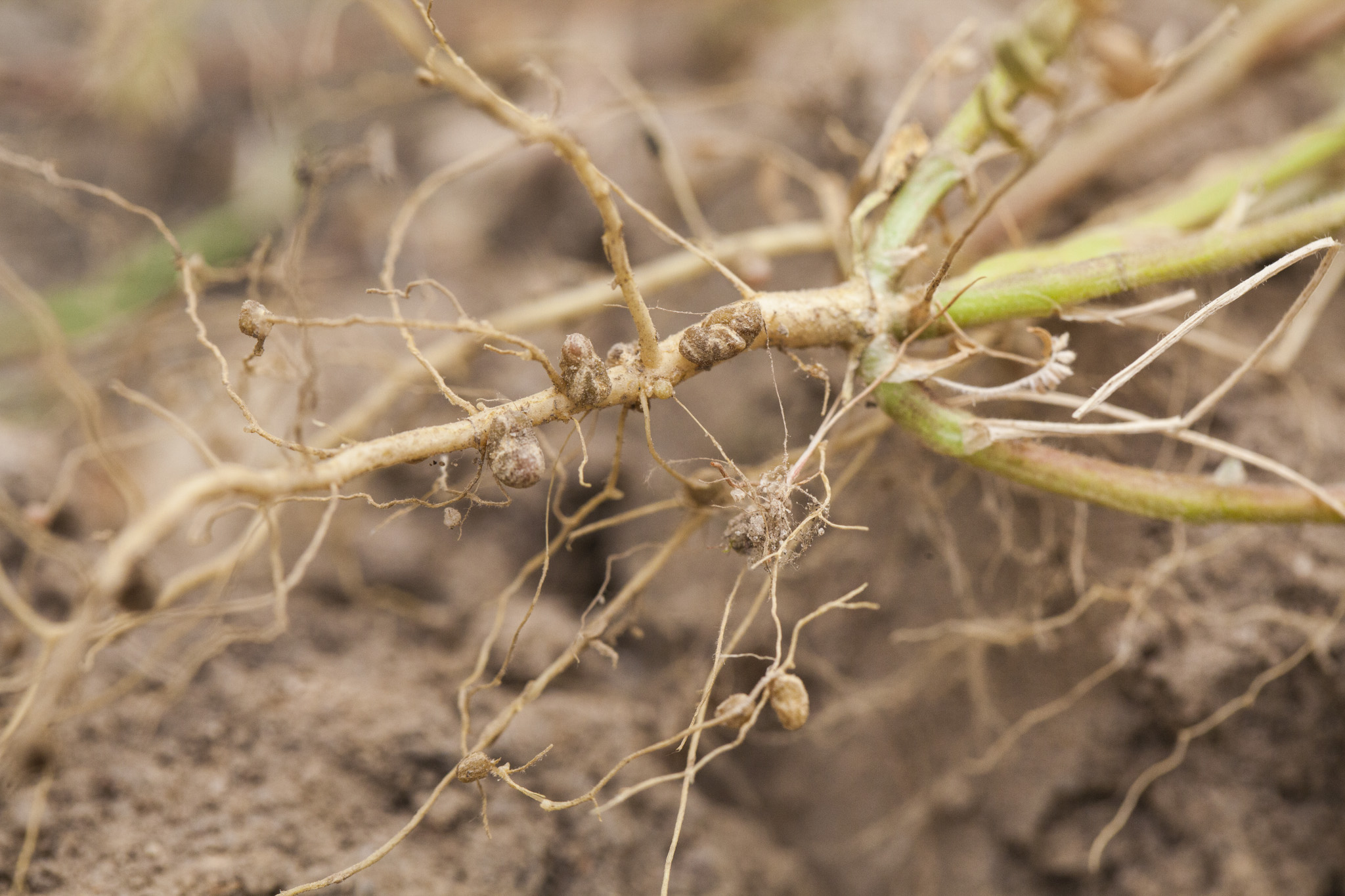 Legumes are inoculated with bacteria of the genus Rhizobium which induce nitrogen-fixing nodules in the roots of legumes. The fixated atmospheric nitrogen is then used by grasses what makes the overall system self-sufficient in terms of nitrogen.